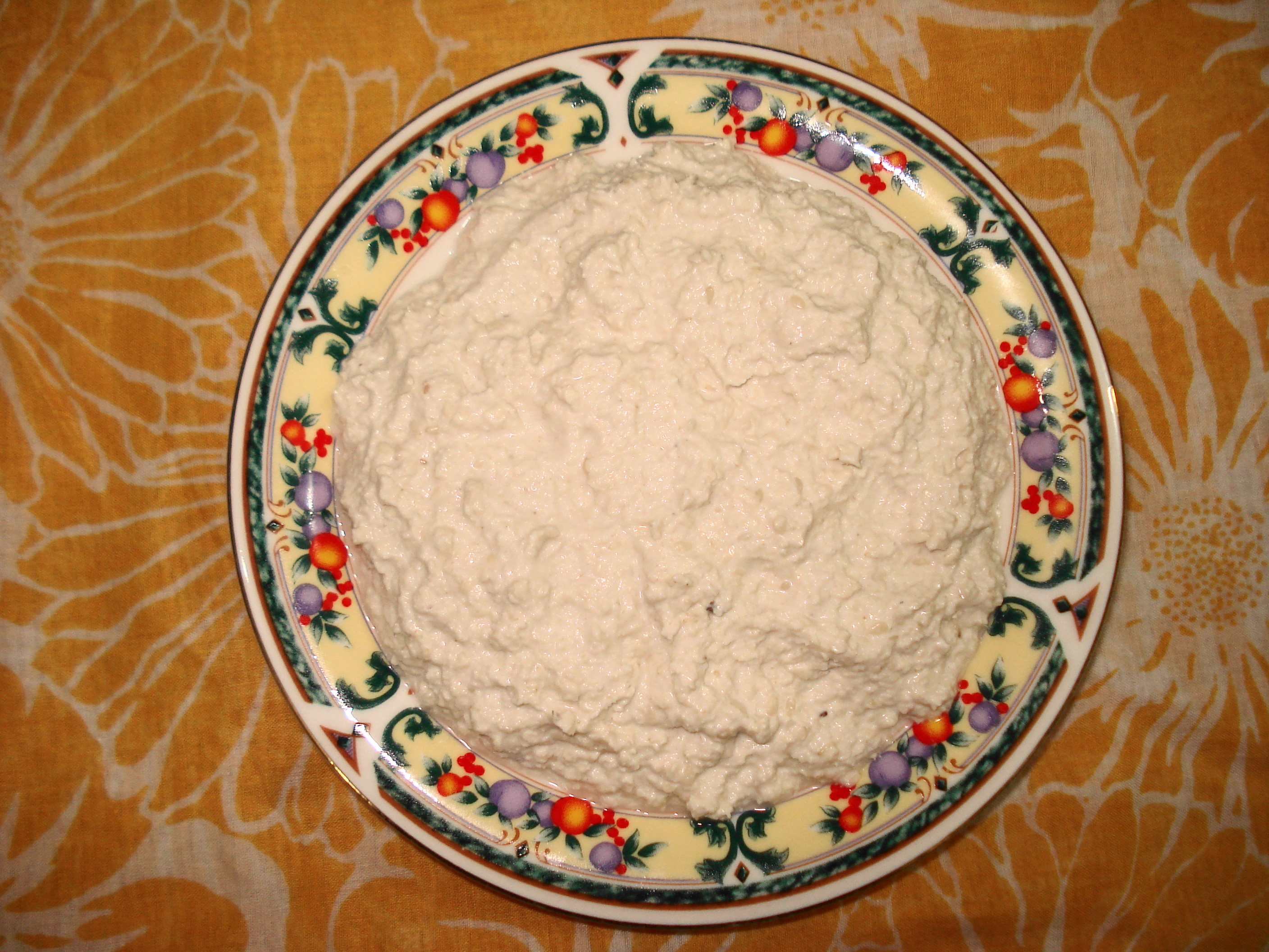 No oil is used in its grinding, only water